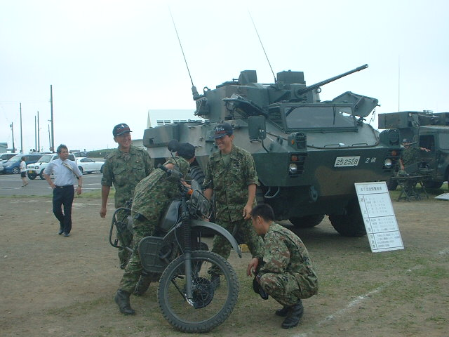 The JGSDF soldiers who have a pleasant chat JGSDF Rcn-Motorbike(Honda XLR250R) and Type87 RCV.